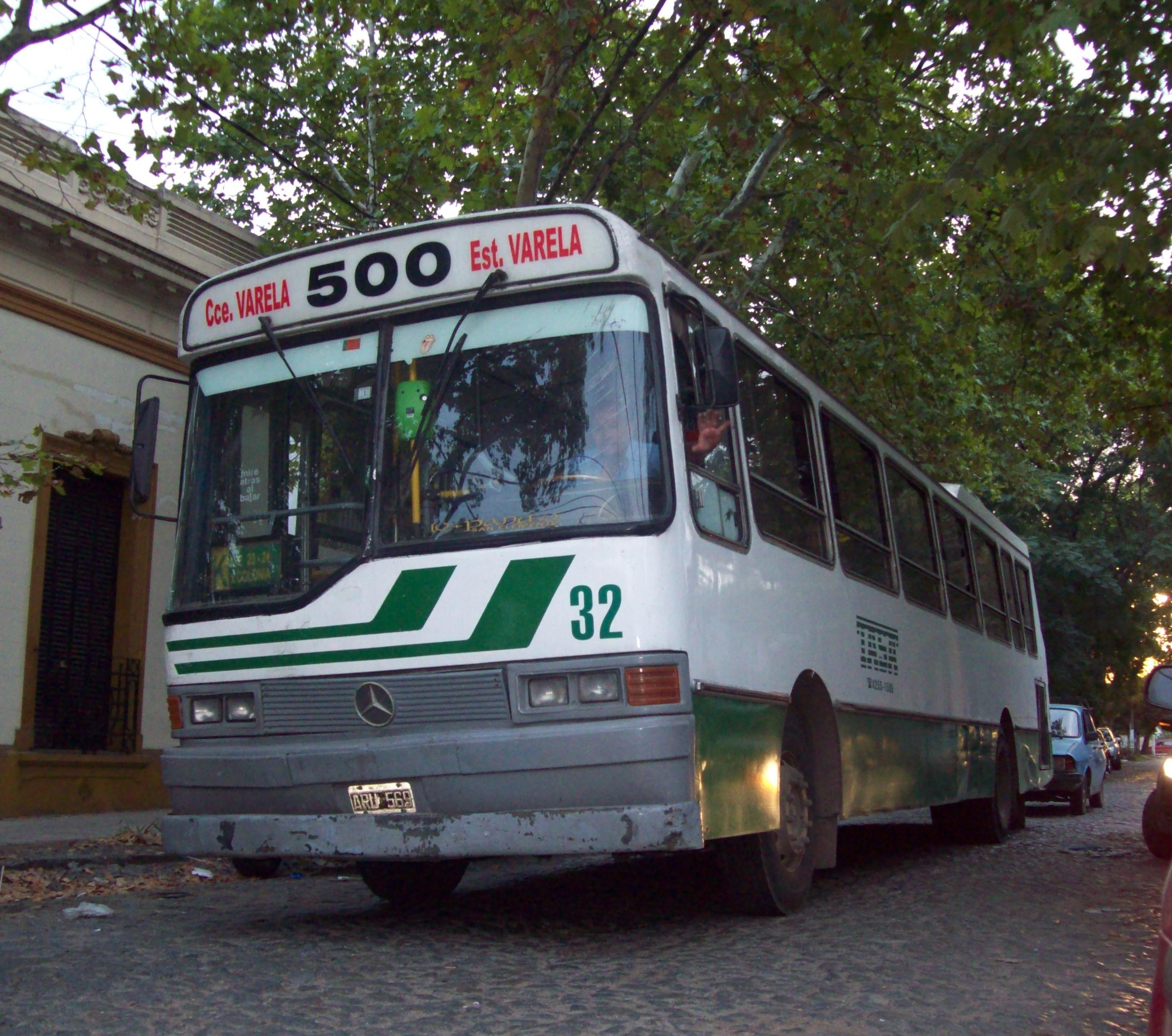 Bus (reg. ARU 569, #32) with Mercedes-Benz chassis in Florencio Varela, Buenos Aires Province, Argentina. Colectivo, line 500, Treinta de Agosto S.A. operator.